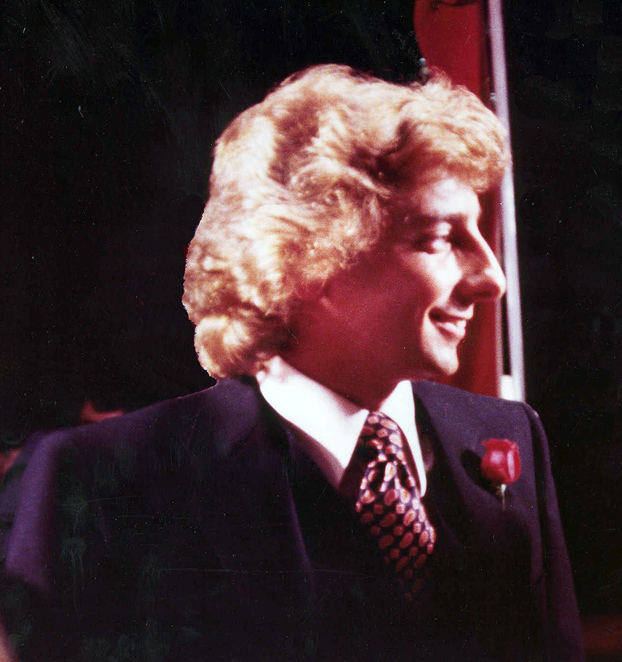 Barry Manilow at the premiere of Bette Midler's movie "The Rose", November 7, 1979